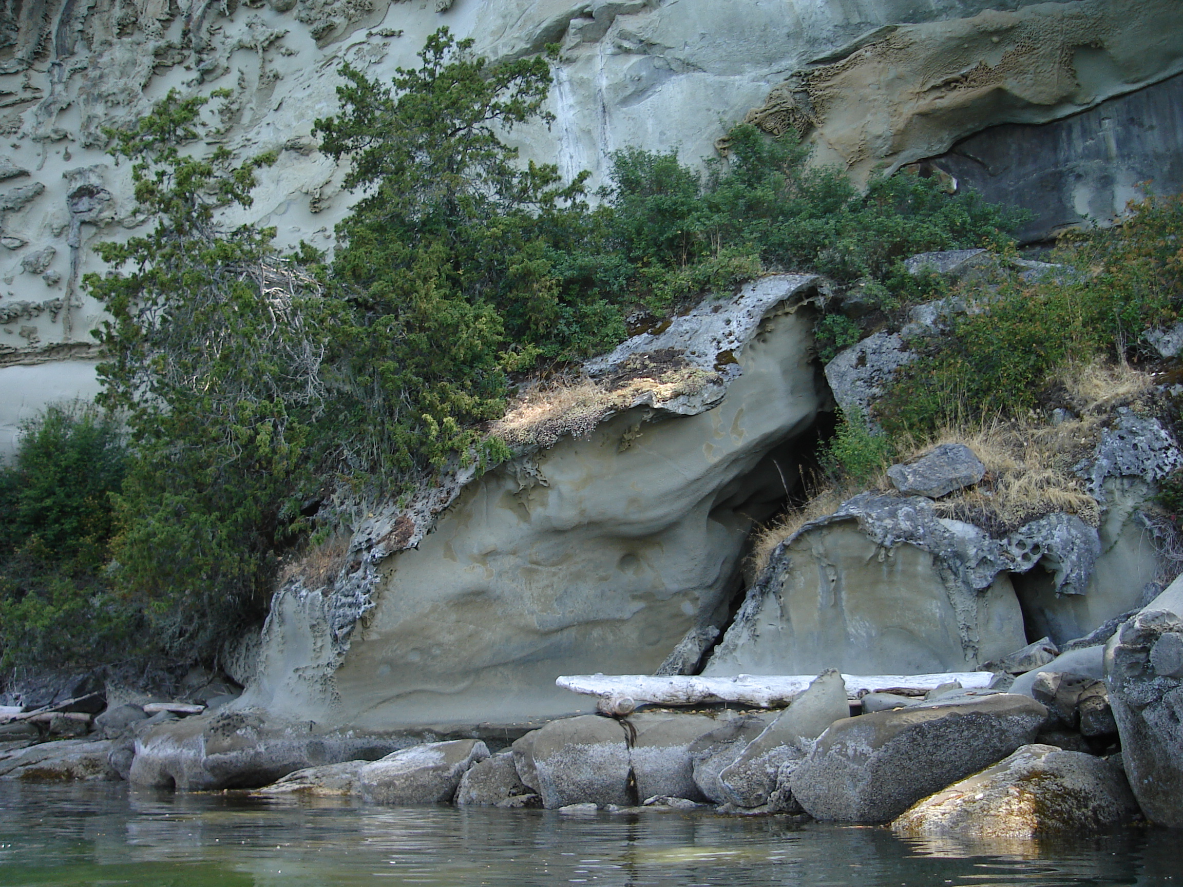 Sandstone Geology that is commonplace on Valdes Island, caused by years of winter storms attacking the rock